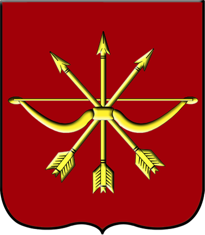 Kozmodemiansk (Mariy El), coat of arms (2005)